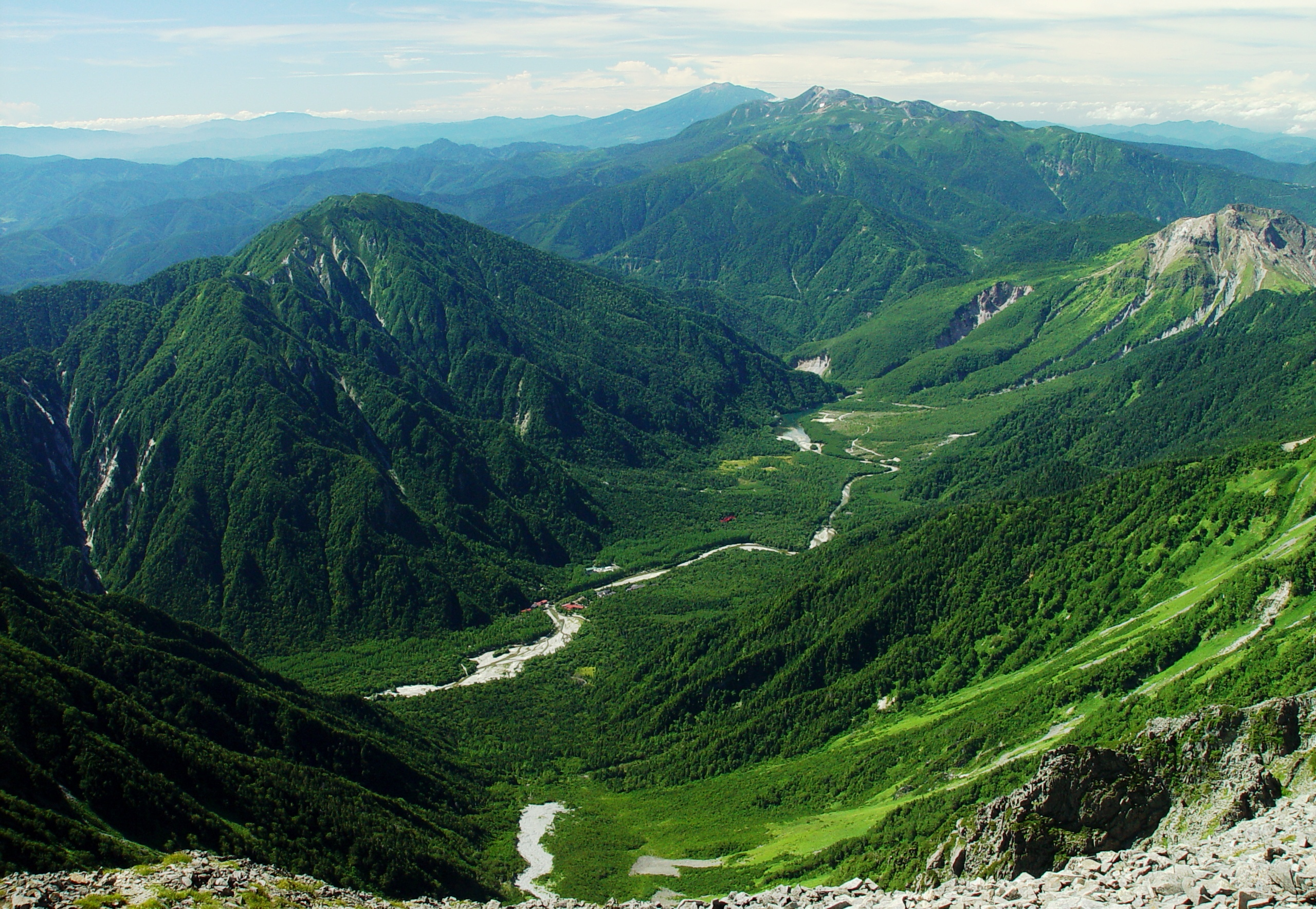 Kamikōchi, Mount Kasumizawa and Mount Norikura from Mount Hotaka